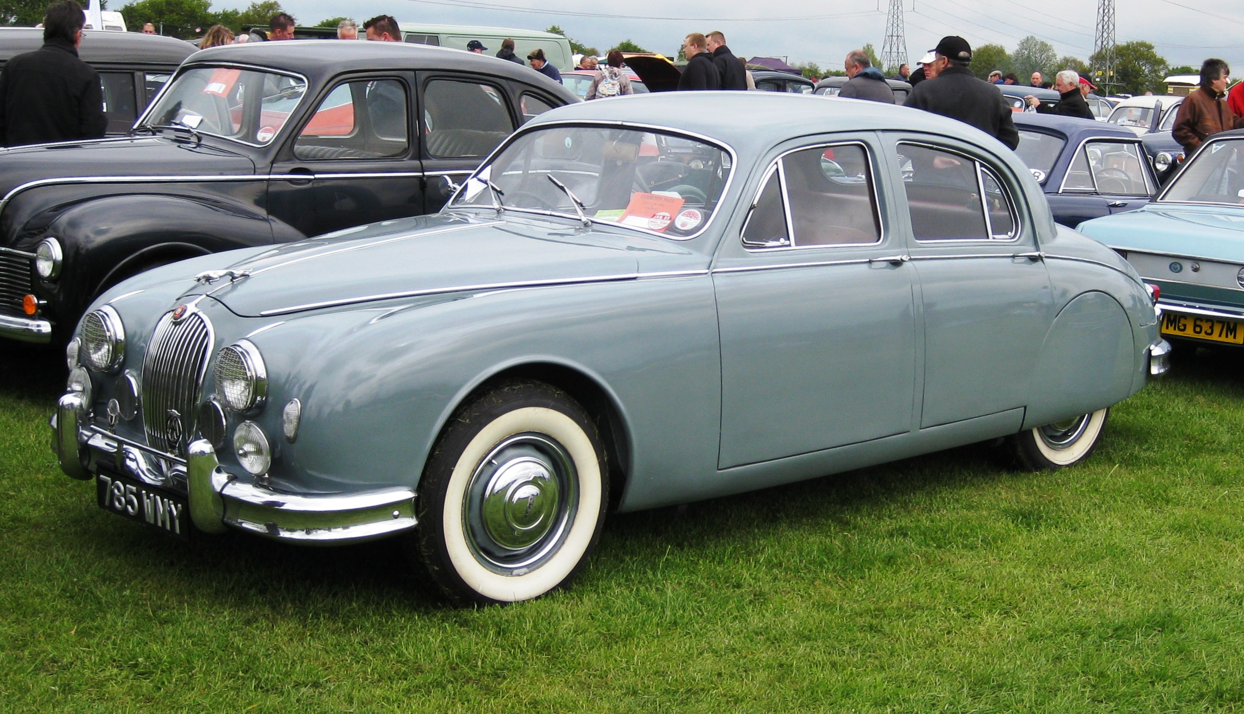 Jaguar Mark I at Battlesbridge Classic Car Show